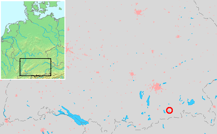 Location maps of lakes in Germany : Schliersee